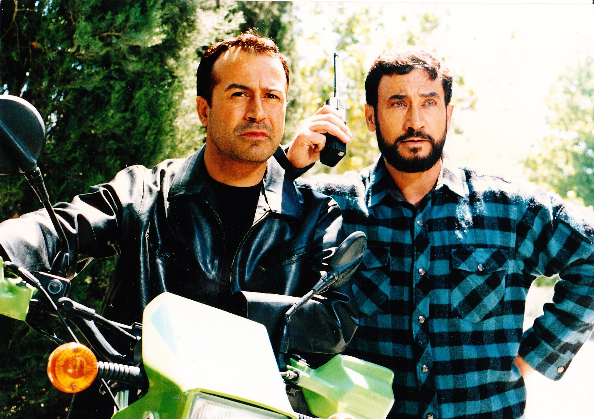 Asleep and awake (Tv series) - Hakimi performed role of "Ali Djalali" wich he is a police man.